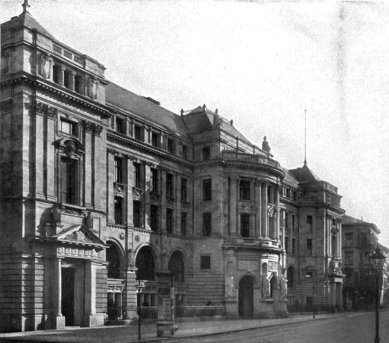 Block II of the Deutsche Bank complex at Mauerstraße No. 25-28 in Berlin-Mitte, built 1908 by Wilhelm Martens.